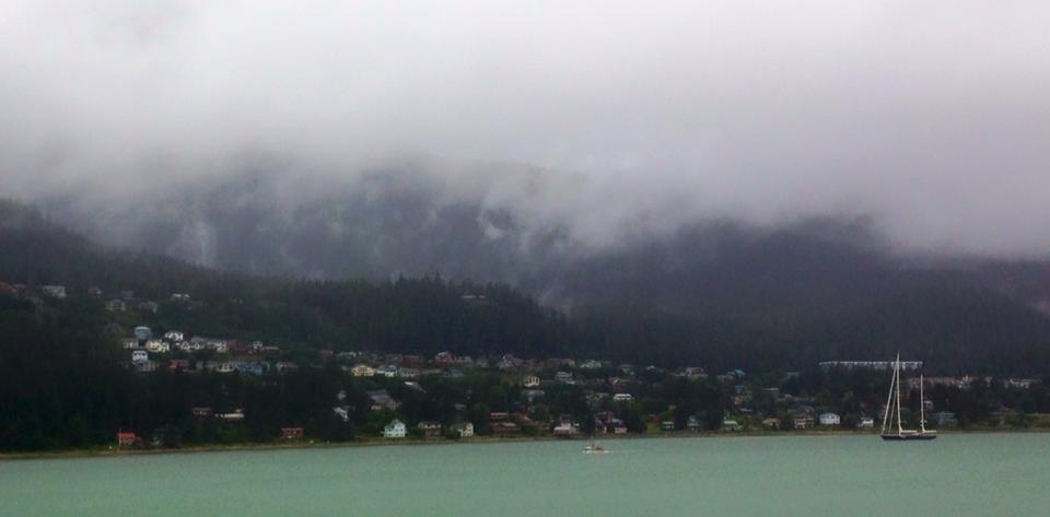 Douglas Island as seen from mainland Juneau, Alaska. The island is connected to the mainland by the Juneau-Douglas Bridge.